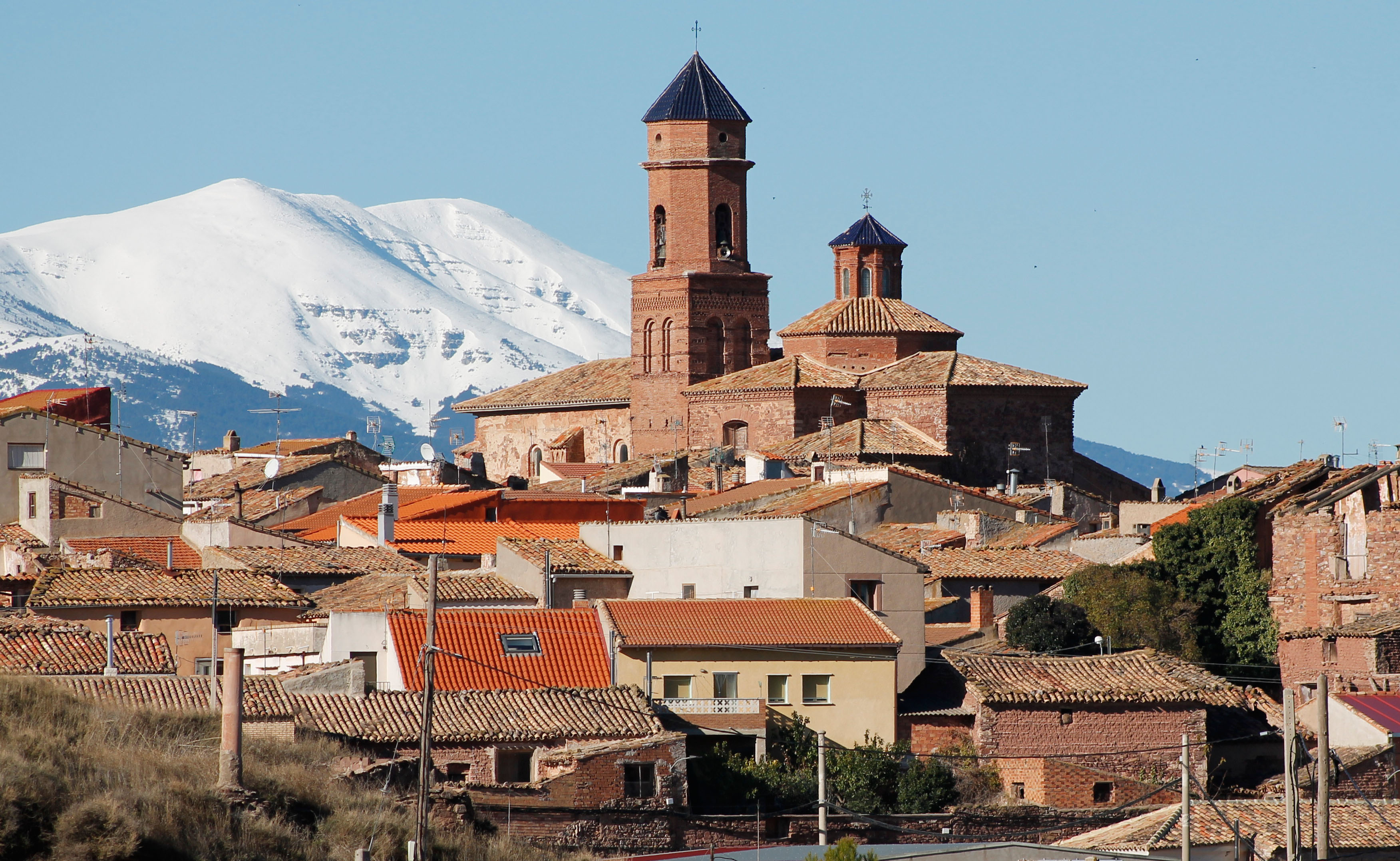 A view of the village of Tabuenca in Aragón (Spain).